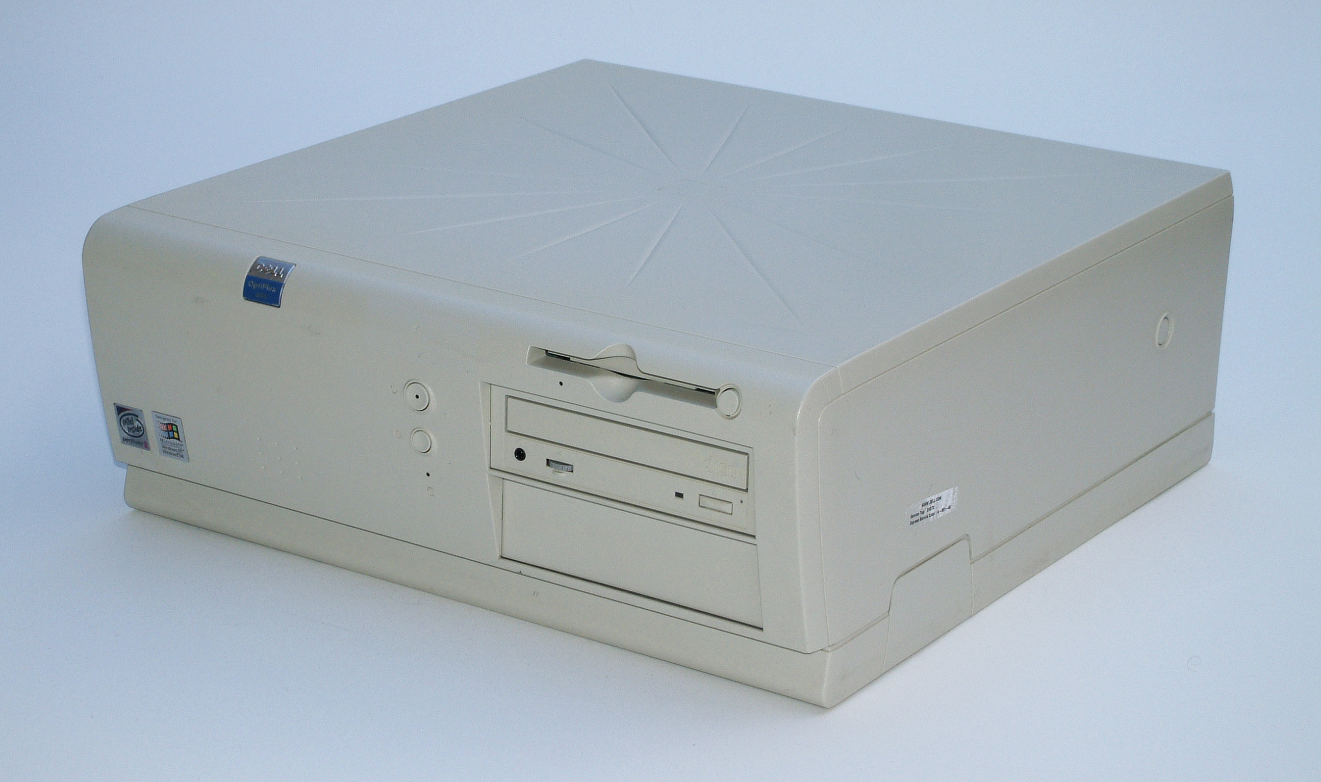 Dell OptiPlex GX1 desktop computer, ca. 1999.